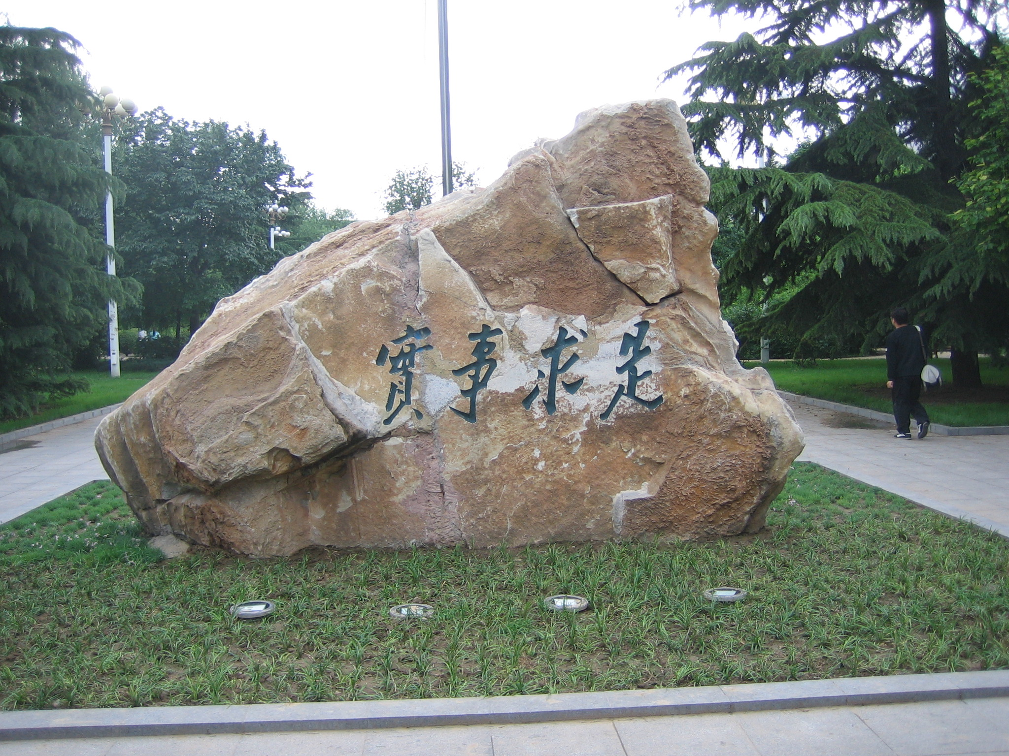 Diakiw, personal photo